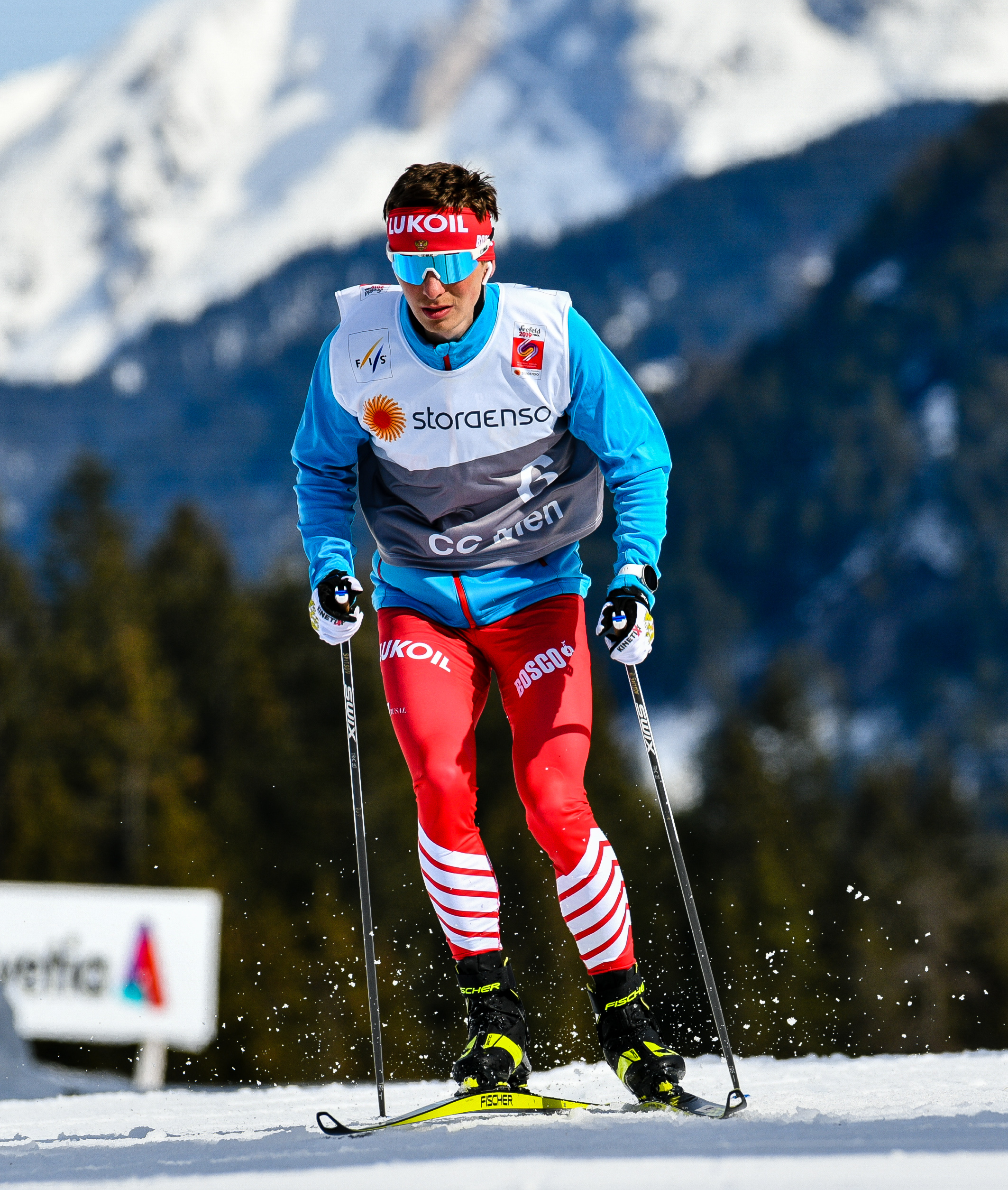 FIS Nordic World Ski Championships Seefeld 2019 - Men Cross Country 50km Mass Start Free. Picture shows Denis Spitsov (RUS).